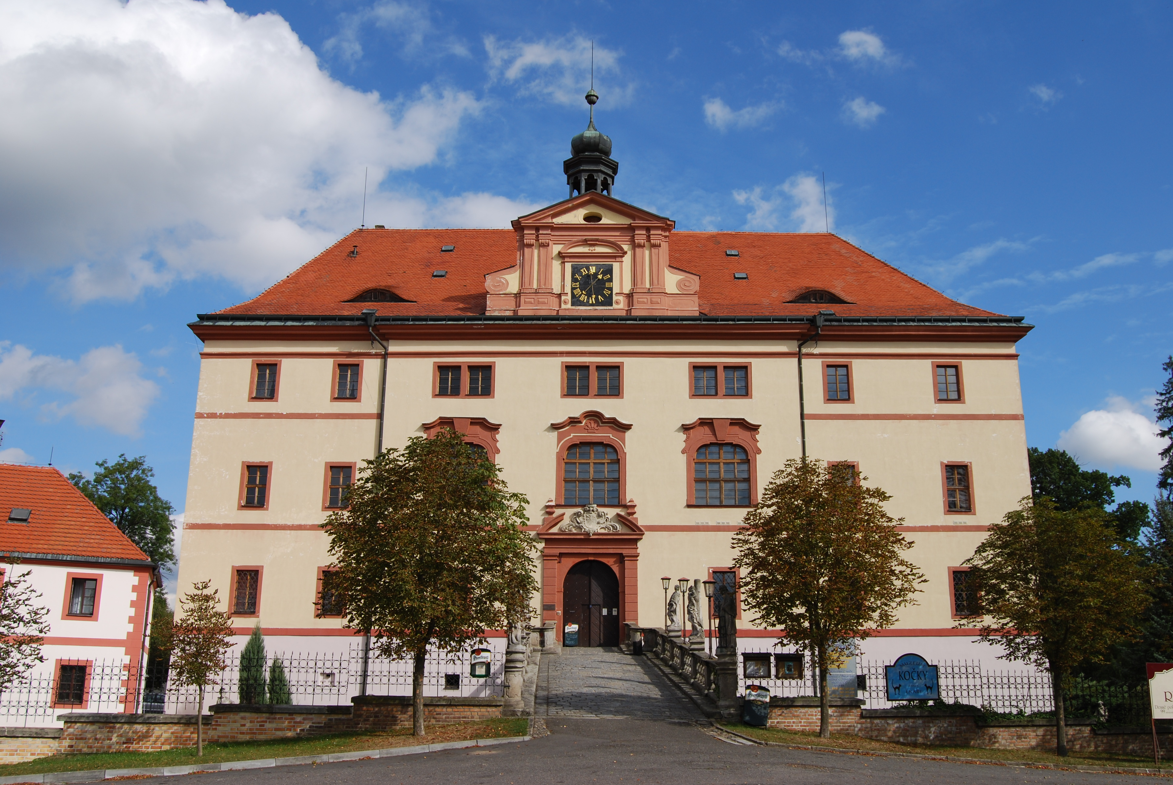 "Nový zámek" in Lnáře town, Strakonice District, Czech Republic.